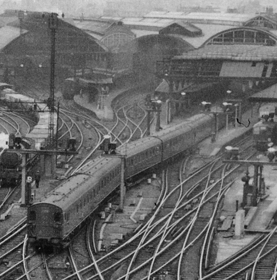 Newcastle-on-Tyne Station: westward panorama from the Castle, 1960. Yet another sample of this celebrated view (cf. NZ2463 : The panorama at the east end of Newcastle Central Station from the Castle, with the 'North Briton' express leaving for Edinburgh and others). Mainly 4EPB class EMUs on the North Tyneside services to be seen, but the ex-NER J71 0-6-0T station pilot is on the right and on the Goods Lines a BR 9F 2-10-0 waits on the Down for a path northward.